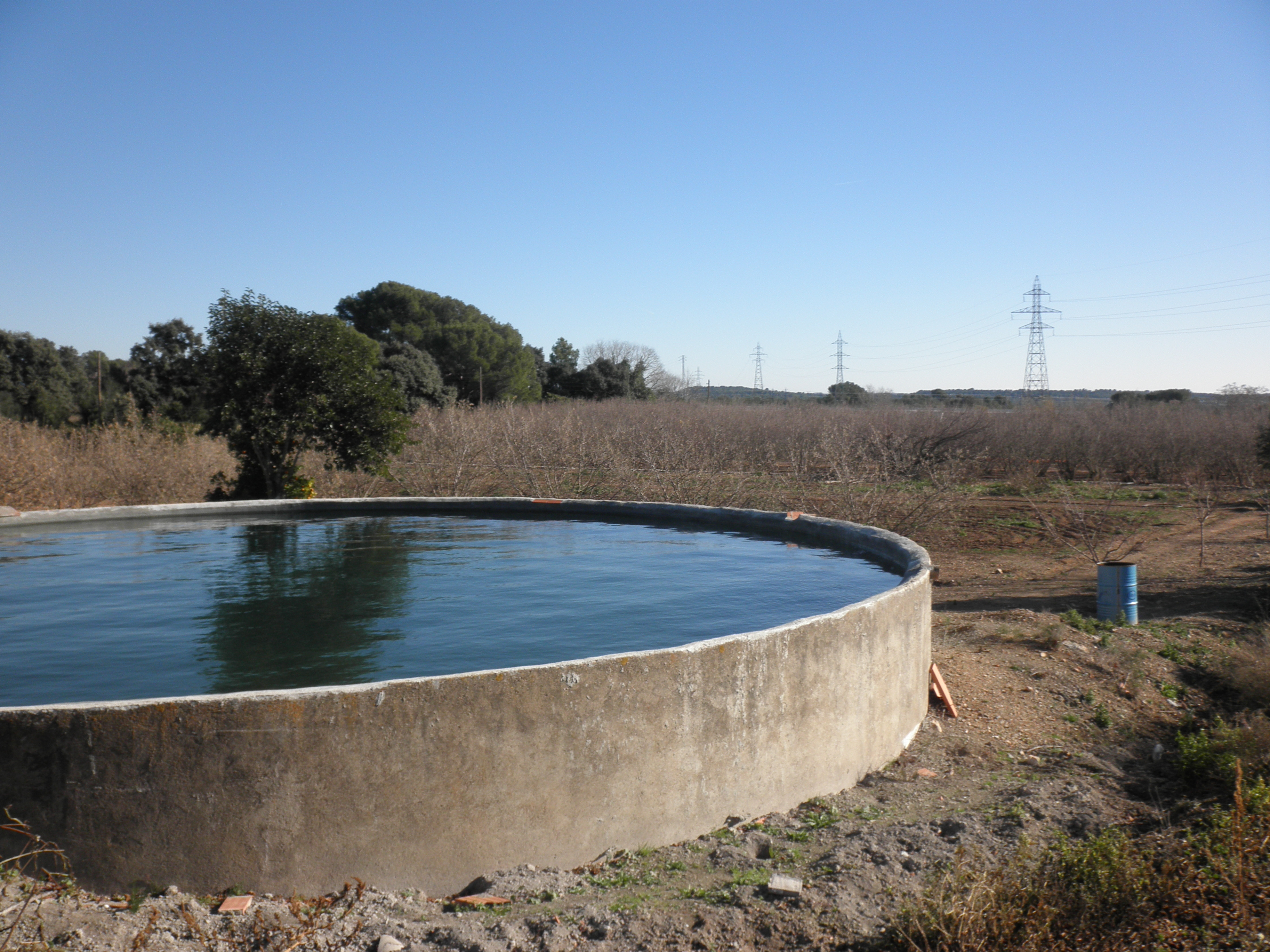 Concrete Pond with hazel in the background.